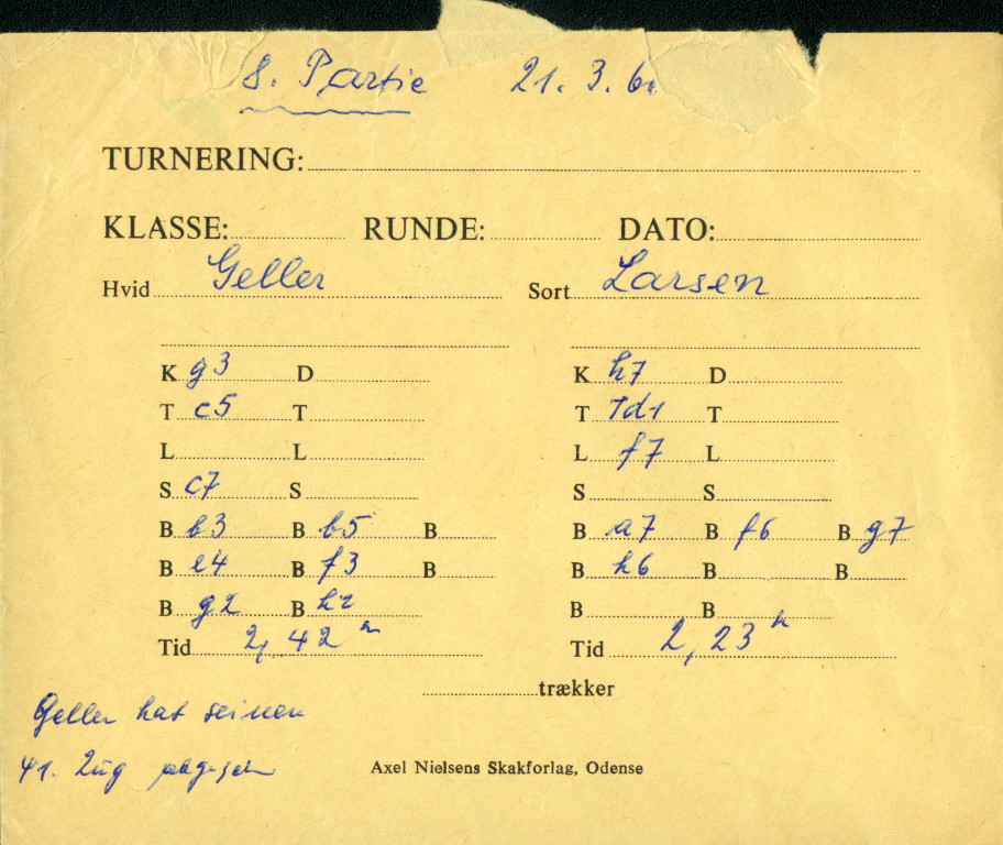 Envelope used for the adjournment of a match game Geller vs. Larsen in Copenhagen on 21/03/1966, which was the 8th party. On the lower left, it is written that Gellert has resigned his 41st draw.